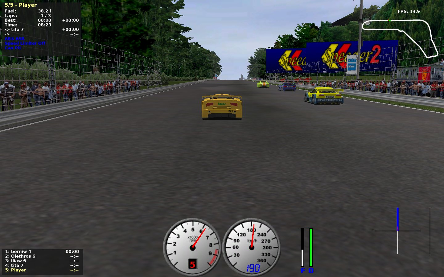 TORCS screenshot